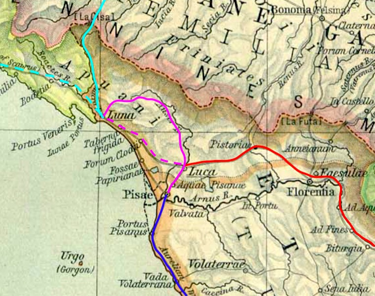 Based on a map from "Historical Atlas" by William R. Shepherd, New York, Henry Holt and Company, 1923 now in Public Domain. Courtesy of the University of Texas Libraries, The University of Texas at Austin. [1]